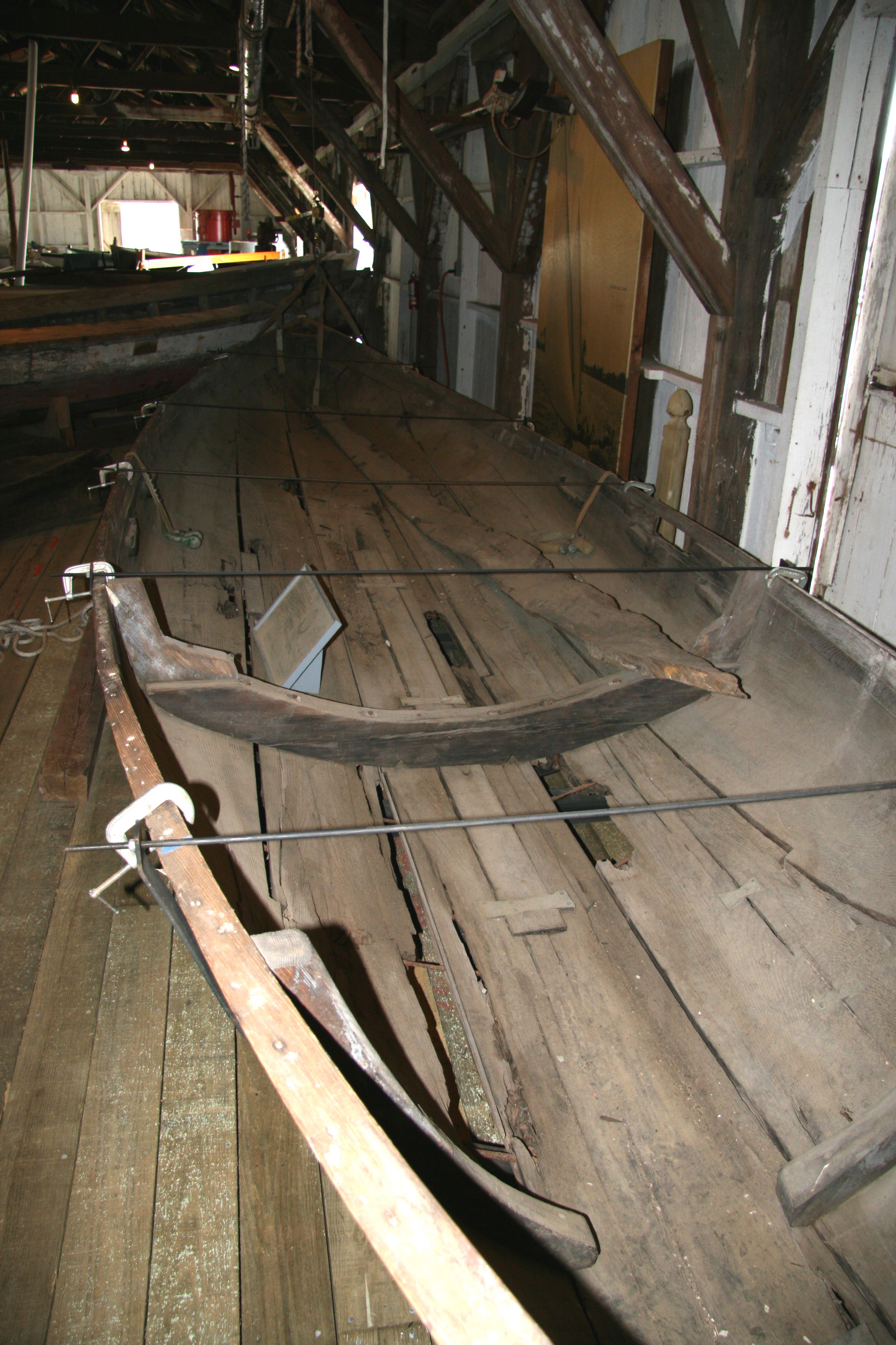 Interior of a Chesapeake Bay log canoe at the Chesapeake Bay Maritime Museum small boat shed, Saint Michaels, Maryland